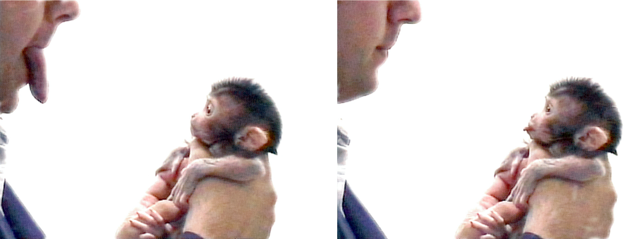 A newborn macaque imitates tongue protrusion